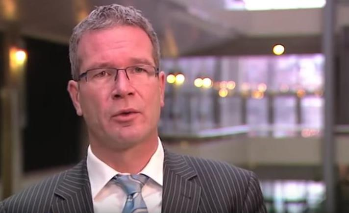 Elbert Dijkgraaf, member of the House of Representatives of the Netherlands